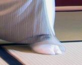 Cropped version of Image:Japanese traditional dancer.jpg